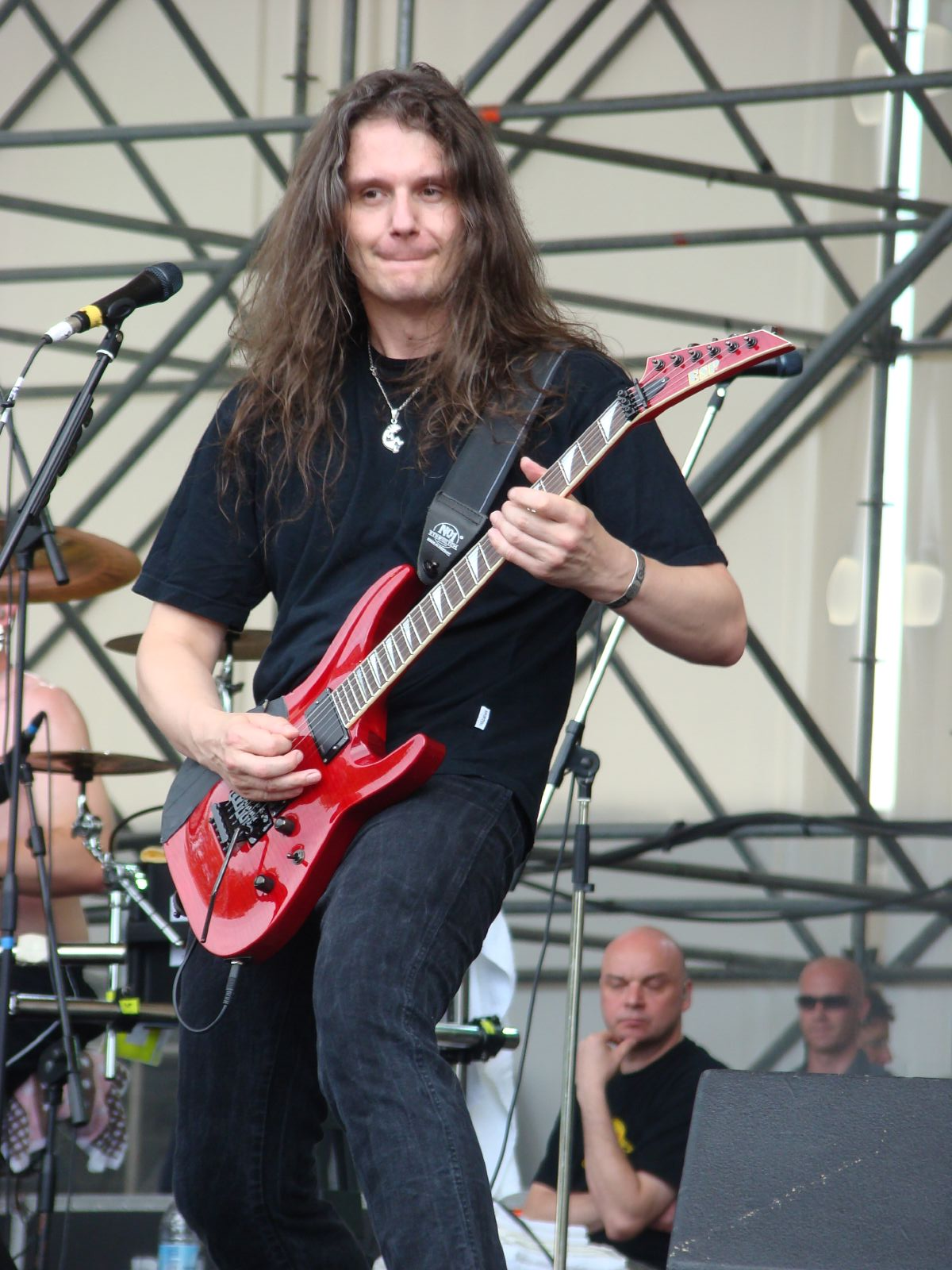 Andre Olbrich, a guitarist of German Heavy metal band Blind Guardian